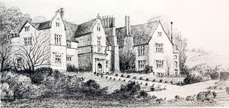 Stanwardine Hall, Shropshire, 1901. From Shropshire houses past & present ; illustrated from drawings by Stanley Leighton ; with descriptive letterpress by the artist. Drawing from a work published 1901.